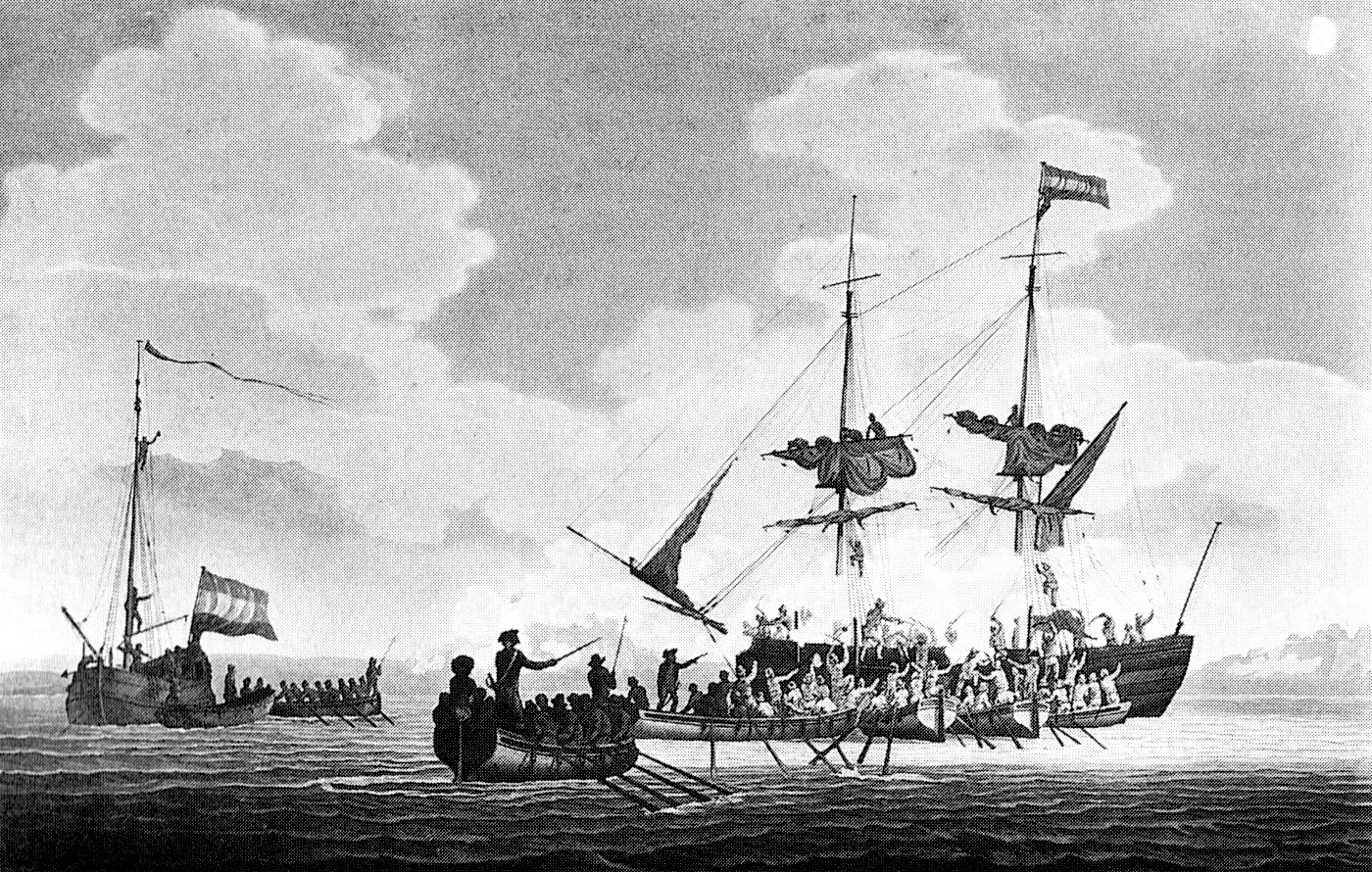 Expedition in the Scheldt Estuary - 20th March 1793 - capture of French Navy ships bij Dutch Navy sloops